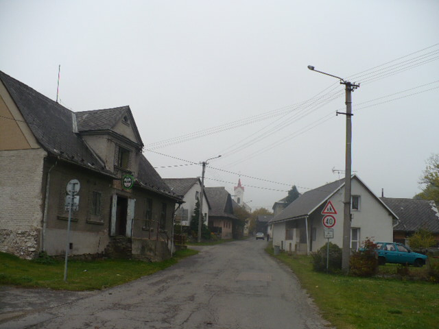 Svébohov (Šumperk District, Czech Republic)